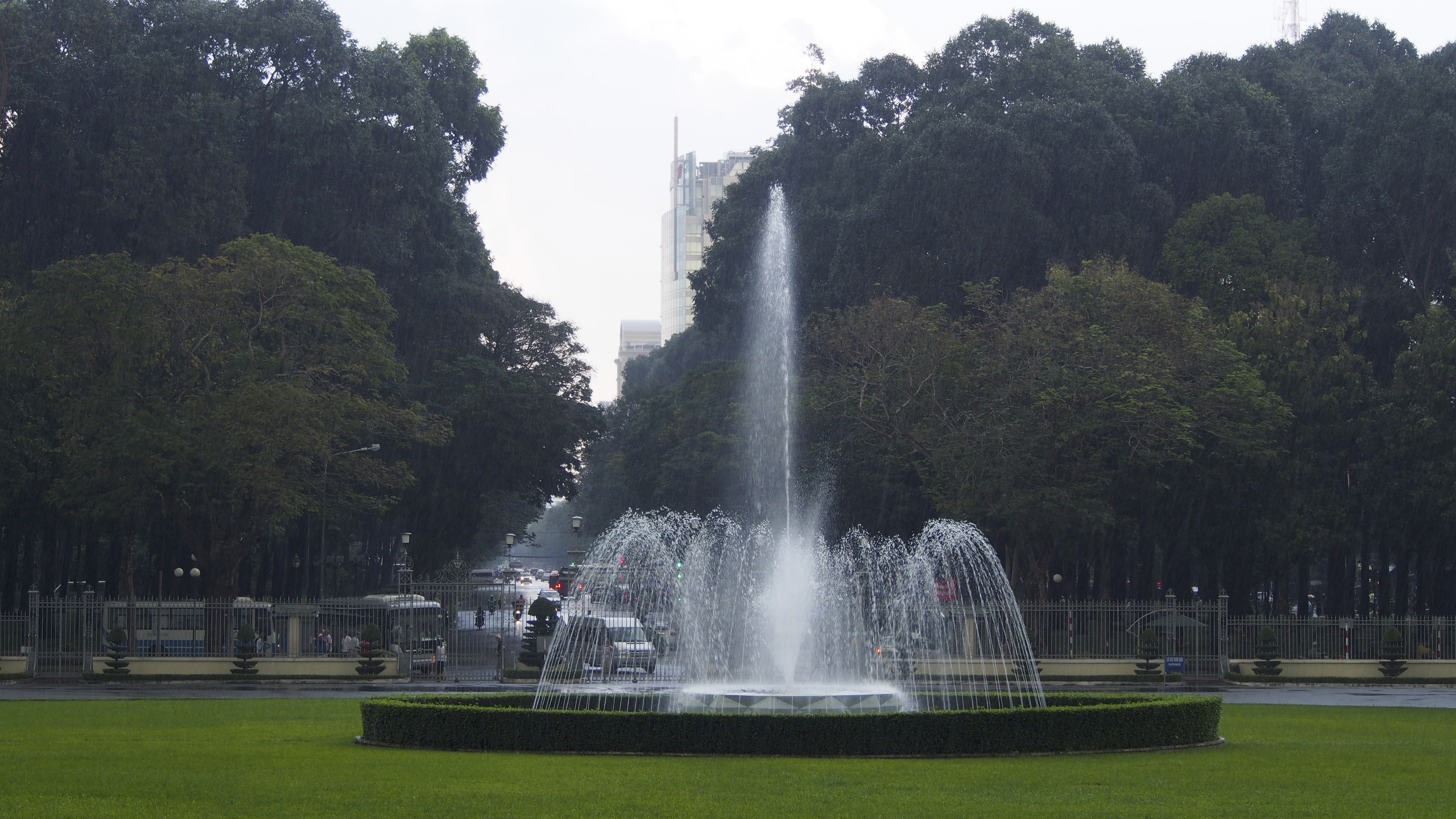 Independence Palace (Dinh Độc Lập), also known as Reunification Palace (Vietnamese: Dinh Thống Nhất), built on the site of the former Norodom Palace, is a landmark in Ho Chi Minh City, Vietnam. It was designed by architect Ngô Viết Thụ and was the home and workplace of the President of South Vietnam during the Vietnam War. It was the site of the end of the Vietnam War during the Fall of Saigon on April 30, 1975, when a North Vietnamese Army tank crashed through its gates. Wikipedia